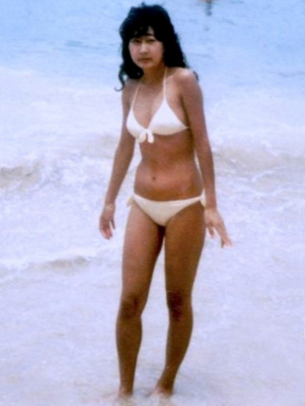 Low Rise Bikini ; Waikiki Beach (Honolulu, Hawaii)